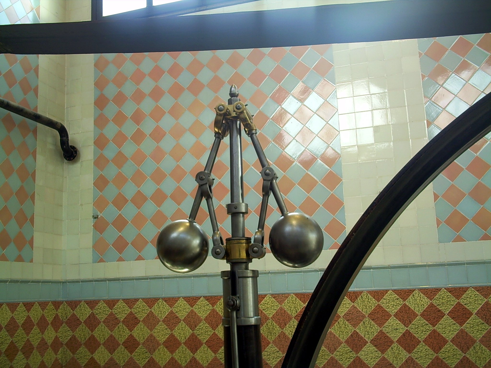 Horizontal steam engine, Watt regulator detail, at the mNATECT, Terrassa, (Catalunya).